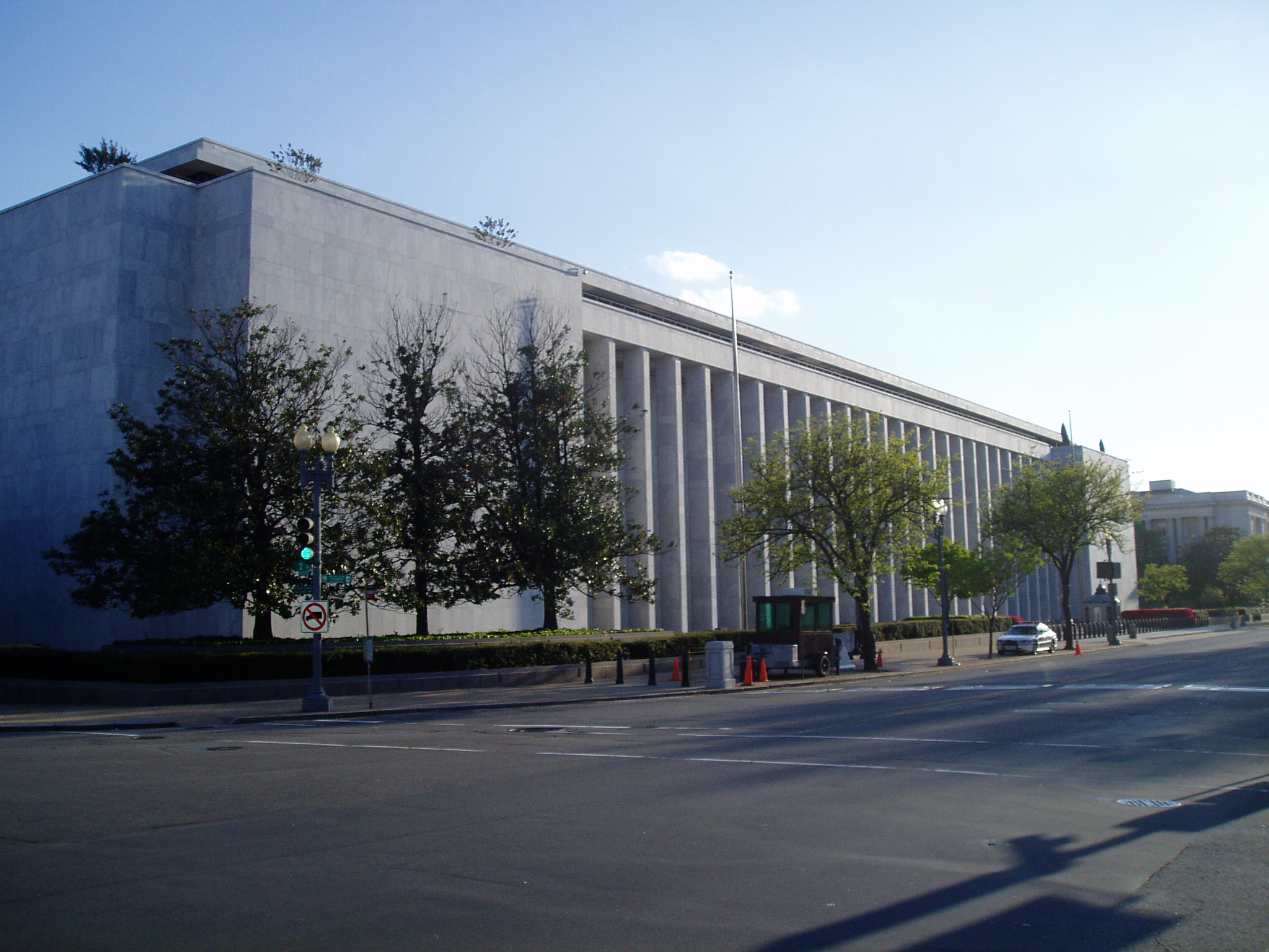 James Madison Memorial Building of the Library of Congress, located in Washington, D.C., the capital of the United States. The fourth floor has the United States Copyright Office.